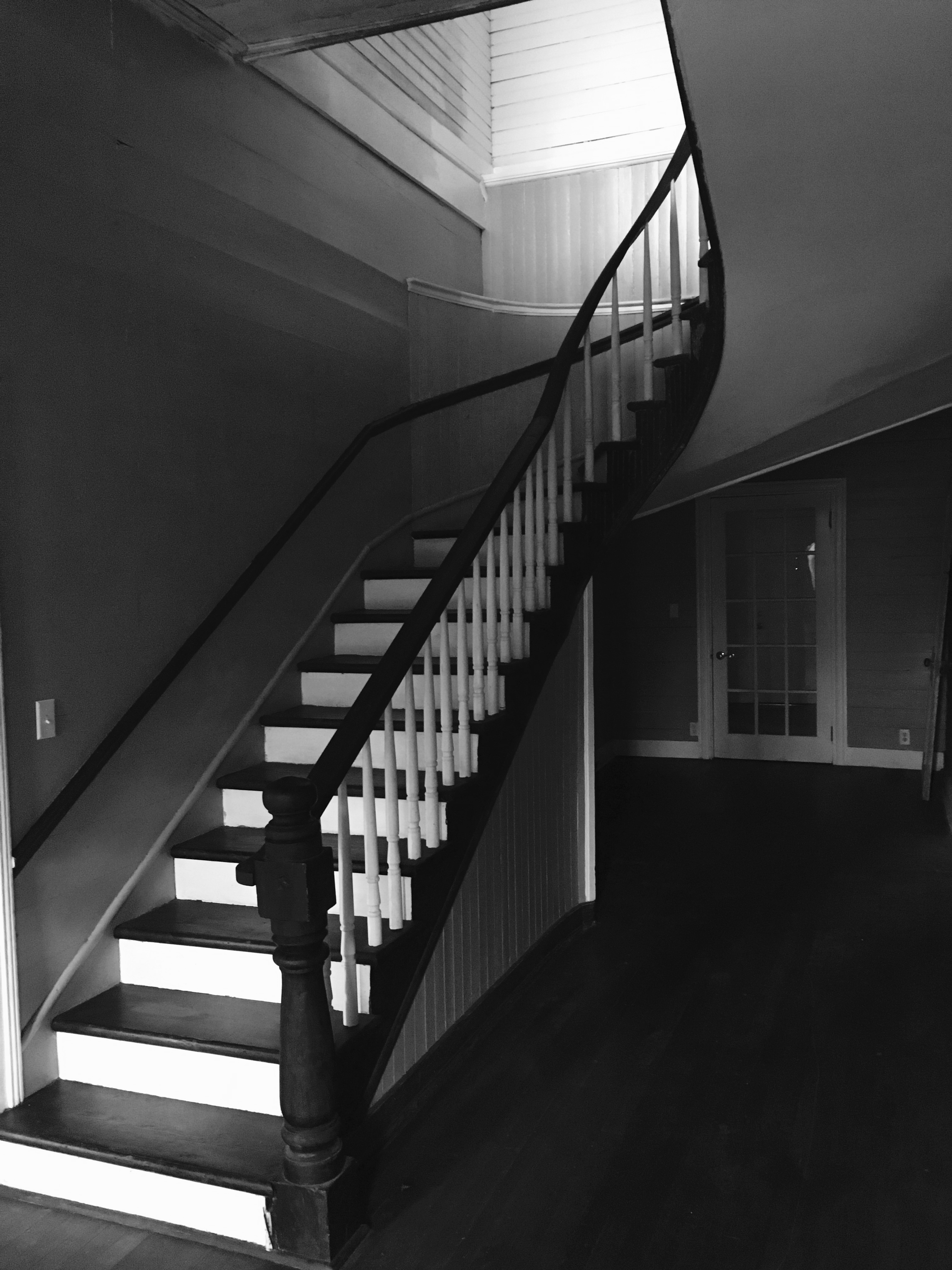 Staircase in the Hix-Blackwell House, Laurens, South Carolina; part of the South Harper Historic District